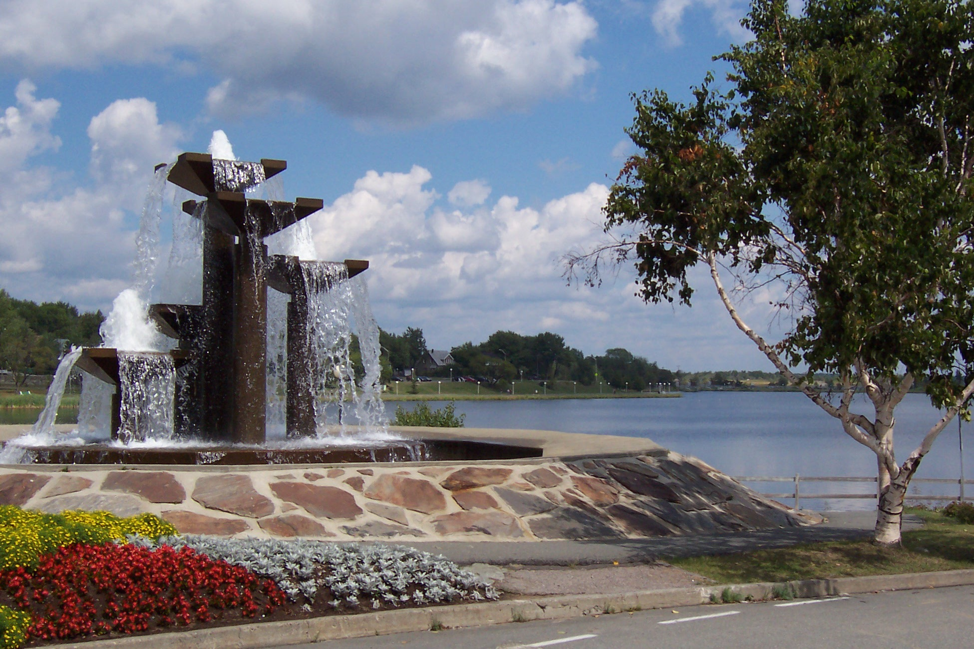 Rouyn-Noranda, 2005